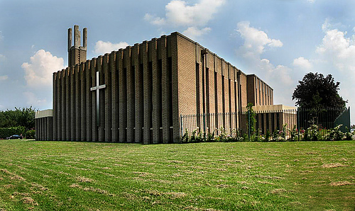 Parish church of Christ the Servant church, Stockwood, Bristol, England